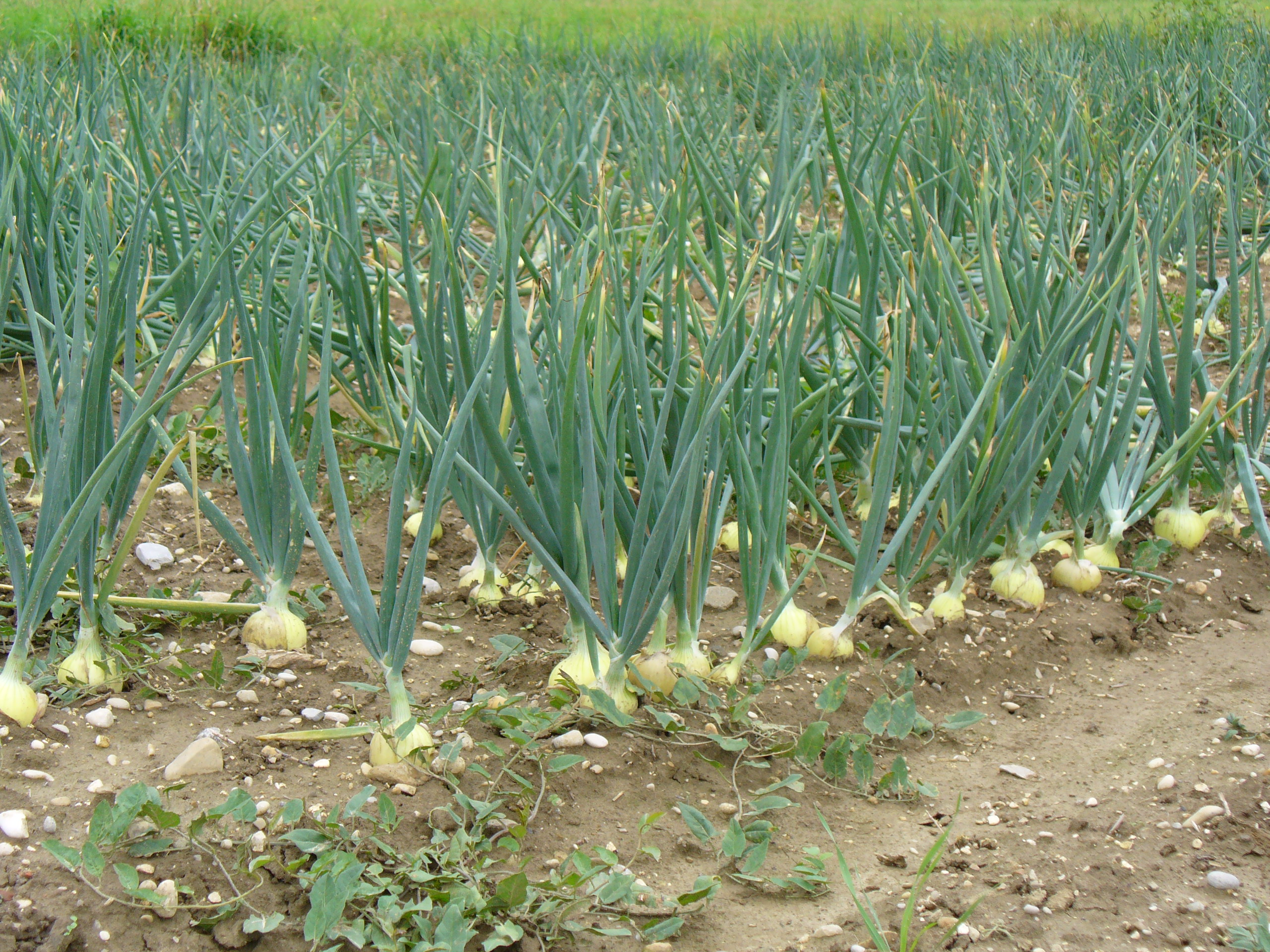 field with onions nearby Ismaning (Germany)